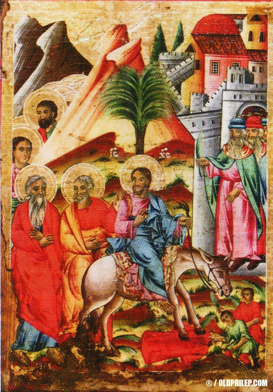 Entry into Jerusalem Icon by Adamche Naydov